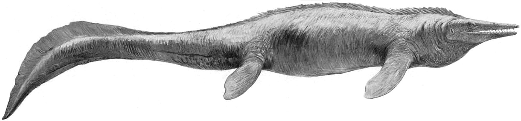 Tylosaurus by Charles R. Knight (1874-1953) from Memoirs of the American Museum of Natural History 1899 United States